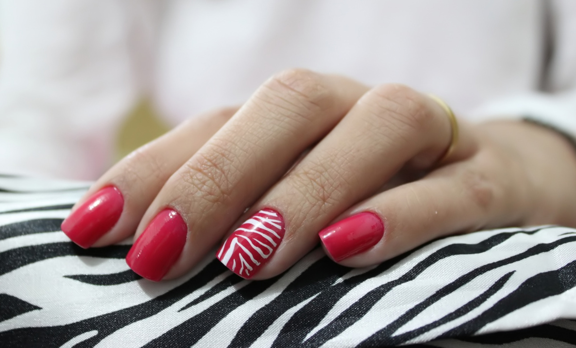 Com tantas cores diferentes disponíveis agora, meus rosinhas estavam esquecidos na caixinha, mas aí eu fiquei com saudade de um rosa nas unhas e escolhi o Atitude Pink - Penélope Charmosa da Risqué! Tenho a coleção toda da Penélope e só usei um deles, e foi no pé... Esmalte usado no pé conta como esmalte usado? Bom, um rosa bem do bonitinho! No anelar Konad M57.